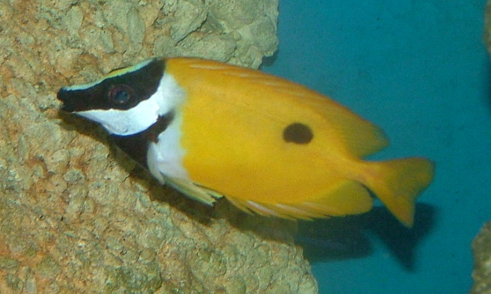 A Blotched foxface (Siganus unimaculatus) at the Jerusalem Biblical Zoo.